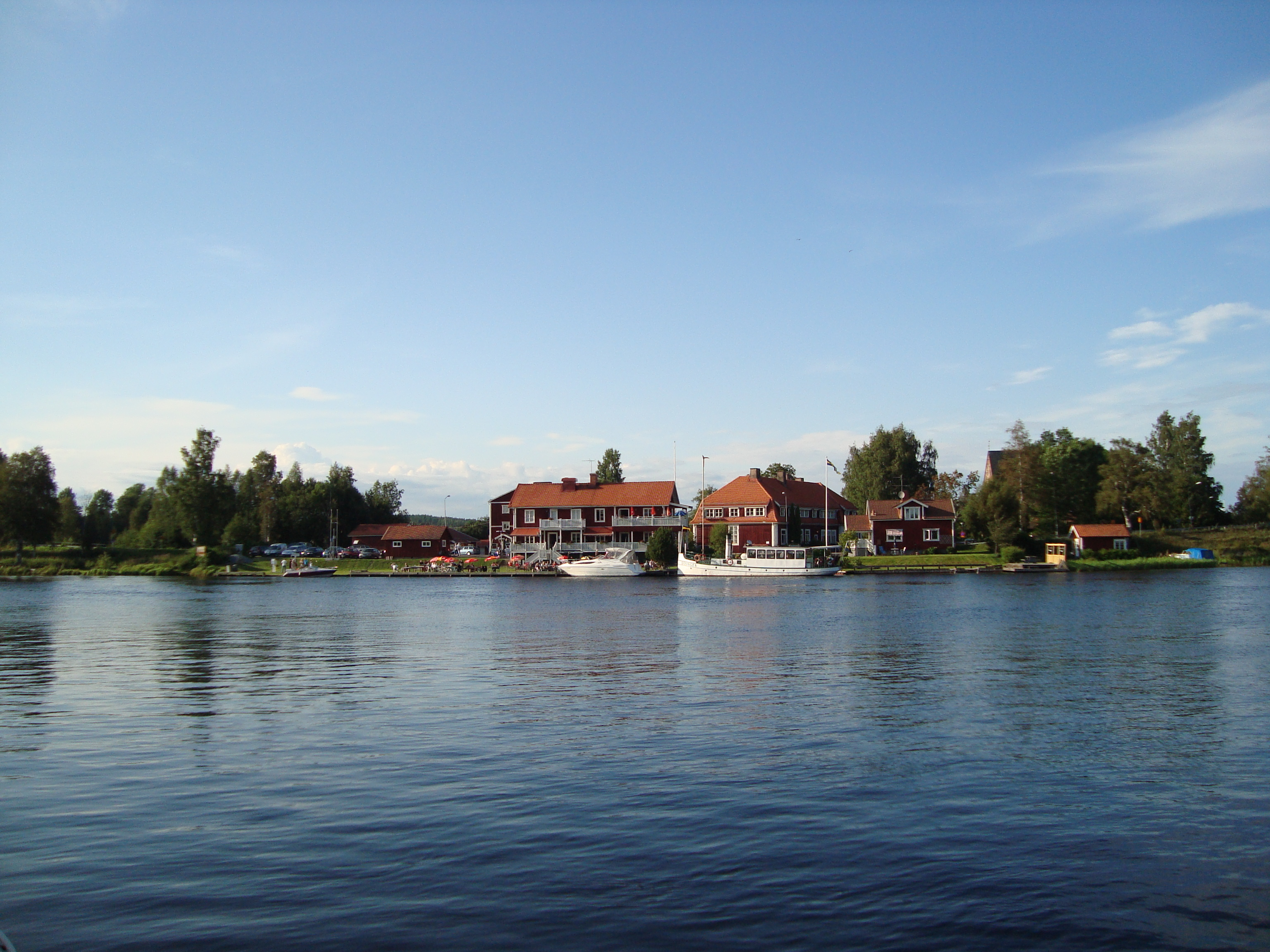 Torsång, Borlänge Municipality, Sweden. Church of Torsång can be spotted behind the trees at the right.